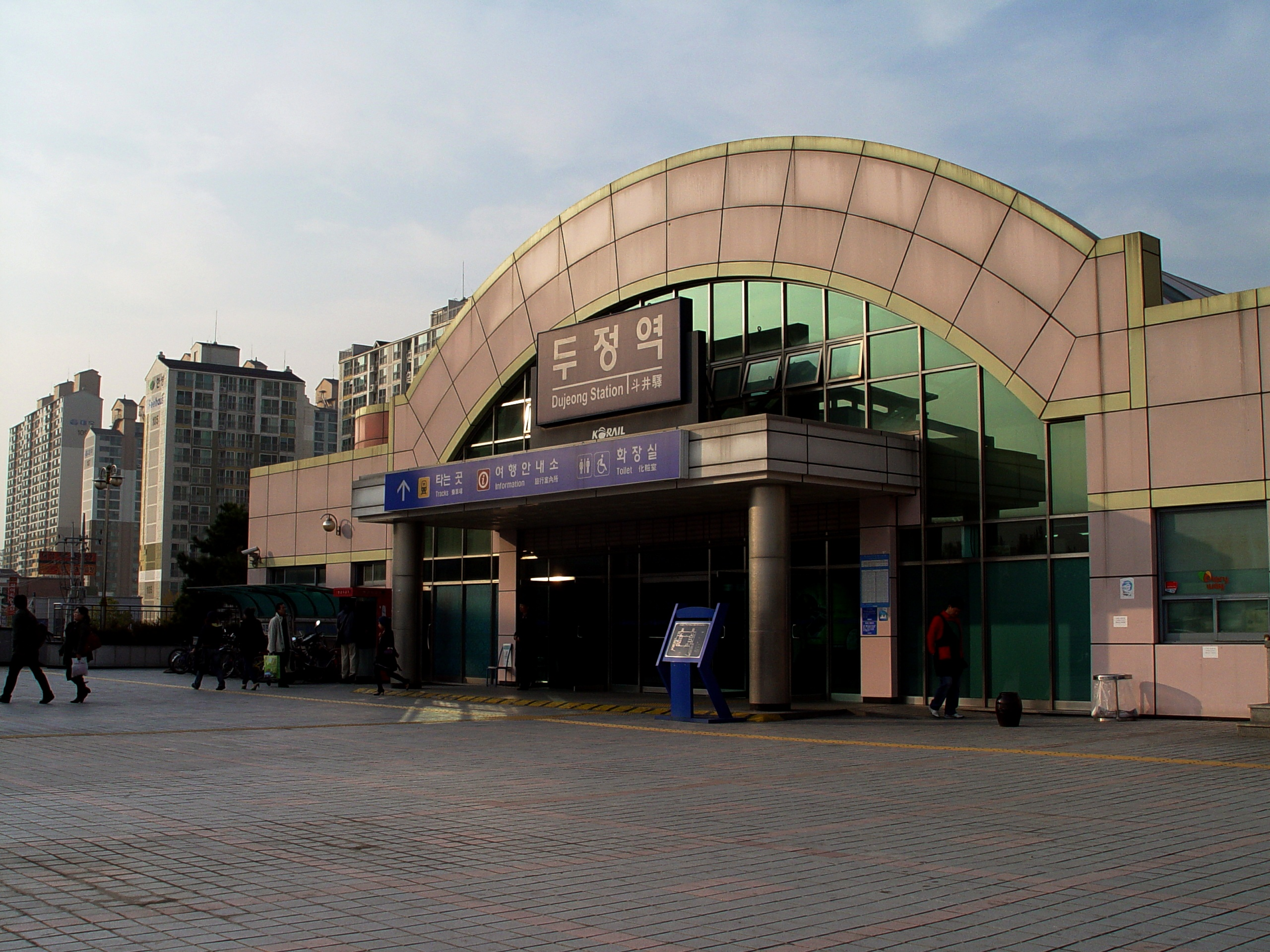 Dujeong Station Entrance